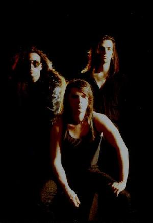 T-Ride